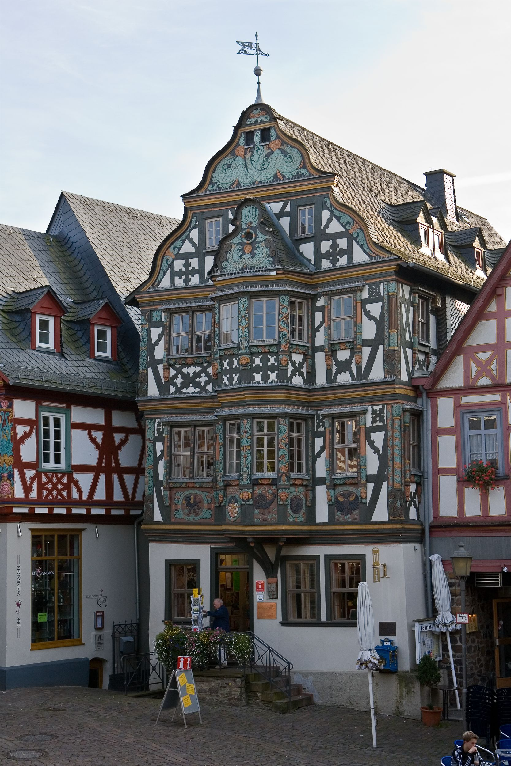 Front of the Killingerhaus in Idstein.